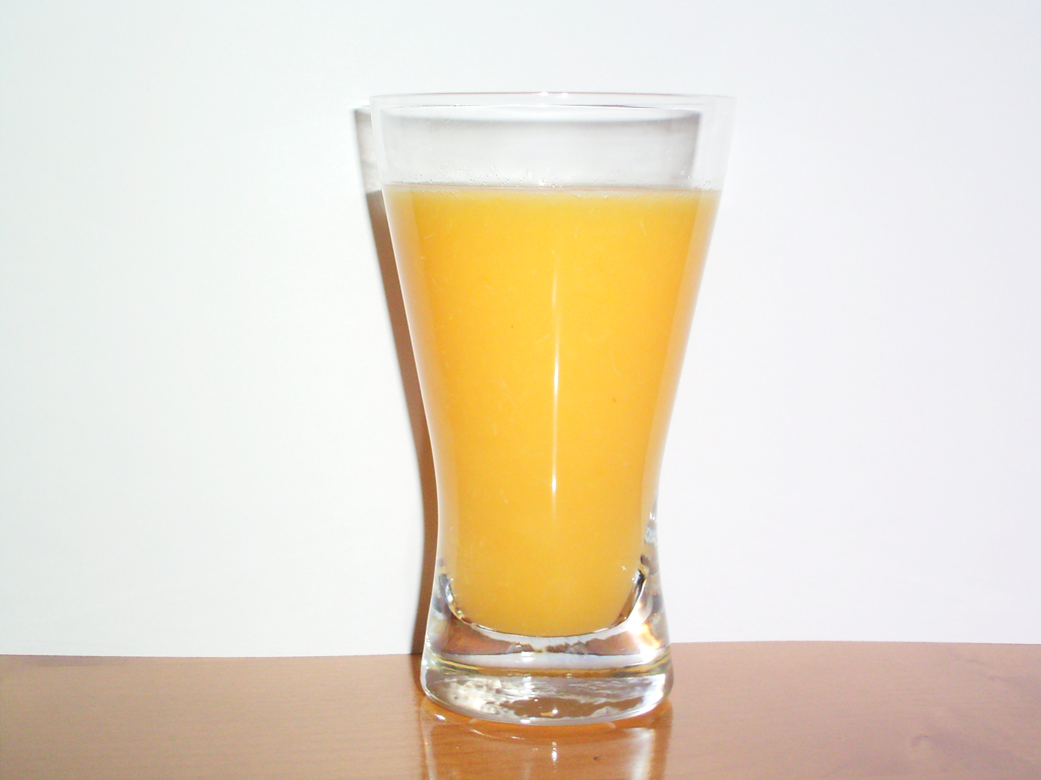 Self-photographed by Patrick Geltinger (myself; Wikipedia-Username: Flunse) - Orange juice without any fruits